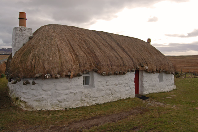 Beaton's Croft House. A property of the National Trust for Scotland, used as a holiday cottage.